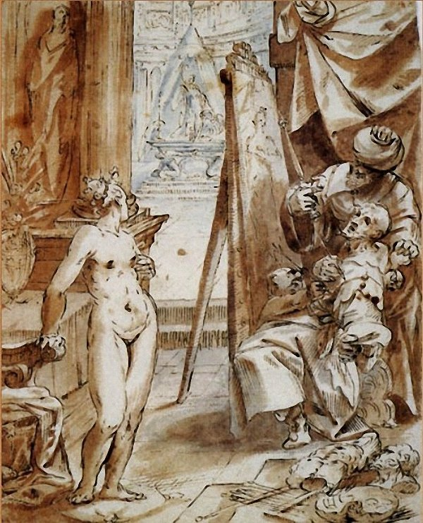 Apelles paints Campaspe, study by Joos van Winghe